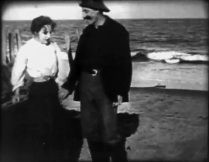 Marion Leonard and James Kirkwood in a film still taken from Lines of White on a Sullen Sea, 1909